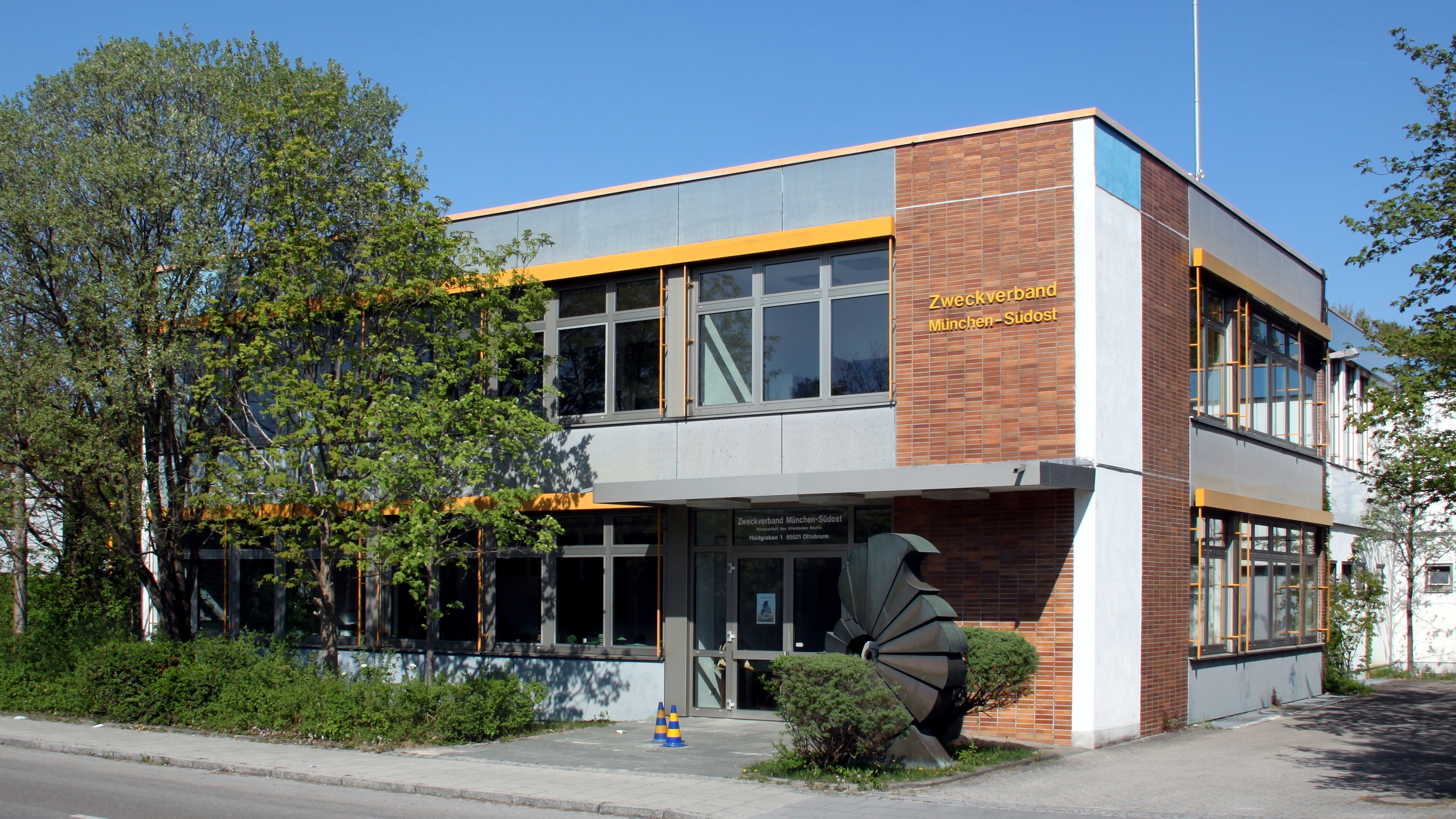 Ottobrunn: Headquarter of the "Zweckverband München-Südost" (i.e. administration union for the region south-east of Munich) (1 Haidgraben)